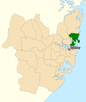 Incorporates or developed using Administrative Boundaries ©PSMA Australia Limited licensed by the Commonwealth of Australia under Creative Commons Attribution 4.0 International licence (CC BY 4.0). Derived from State and Territory Boundaries from the Australian Bureau of Statistics under Creative Commons Attribution 2.5 Australia license (CC BY 2.5 AU)